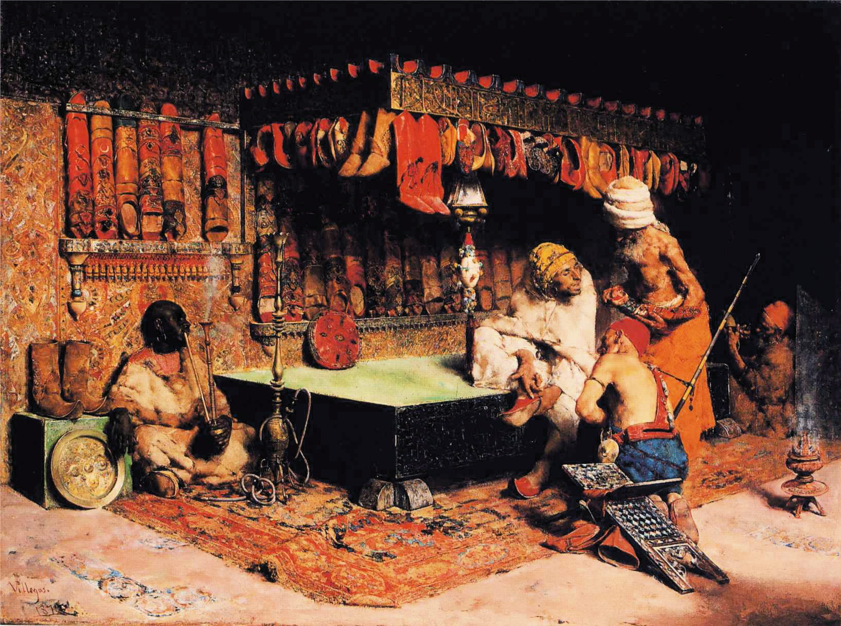 The Slipper Merchant